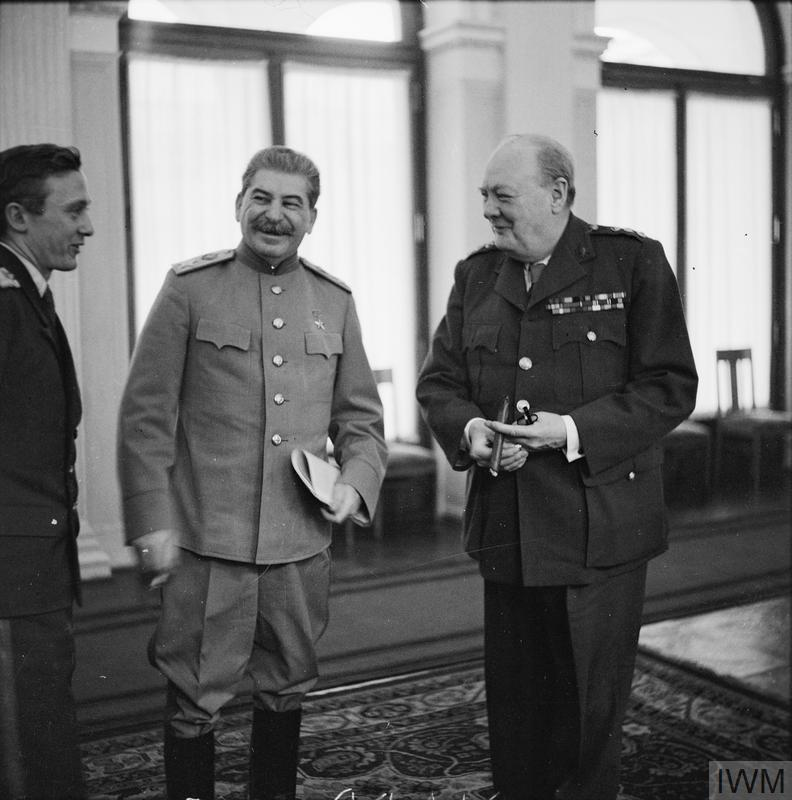 Winston Churchill sharing a joke with Joseph Stalin and his interpreter, Pavlov at Livadia Palace during the Yalta Conference in February 1945.